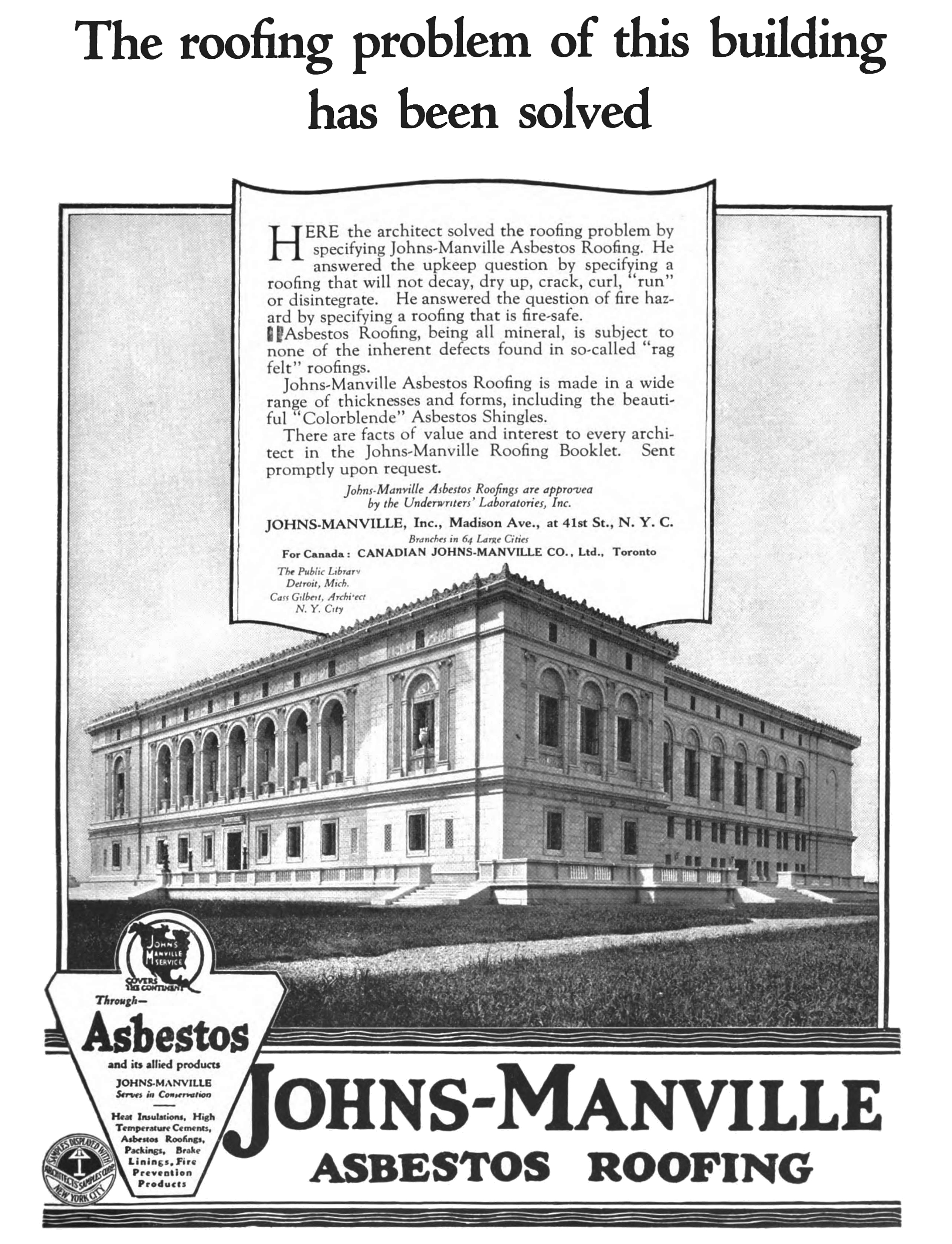 Advertisement for Asbestos roofing by Johns-Manville Inc depicting the Detroit Public Library. From page 35 of Architectural Forum Vol 35 Issue 1.